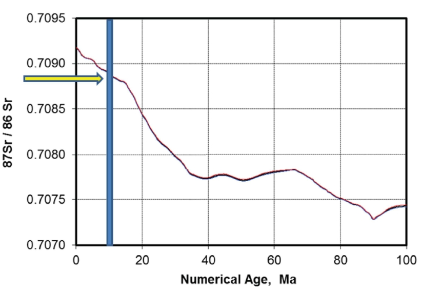 Sr age of the Alajuela Formation, Panama